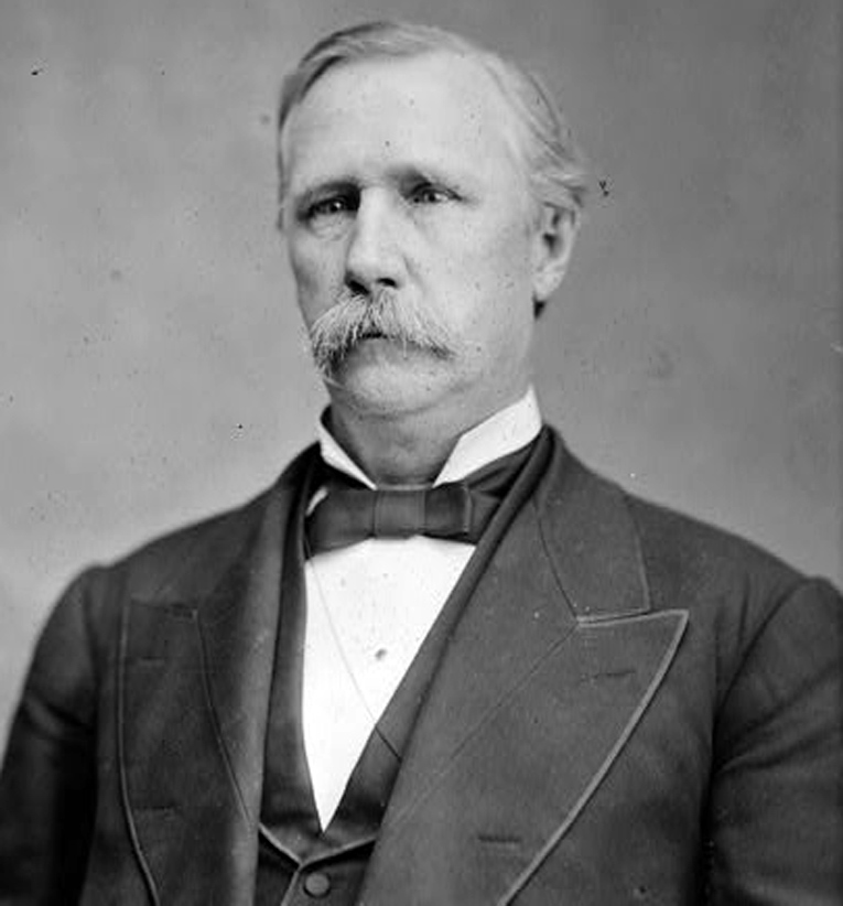 Portrait of Hon. Lyne Shackelford Metcalfe of Missouri, United States Congressman. Wet glass collodion negative. Library of Congress, Washington, D. C.